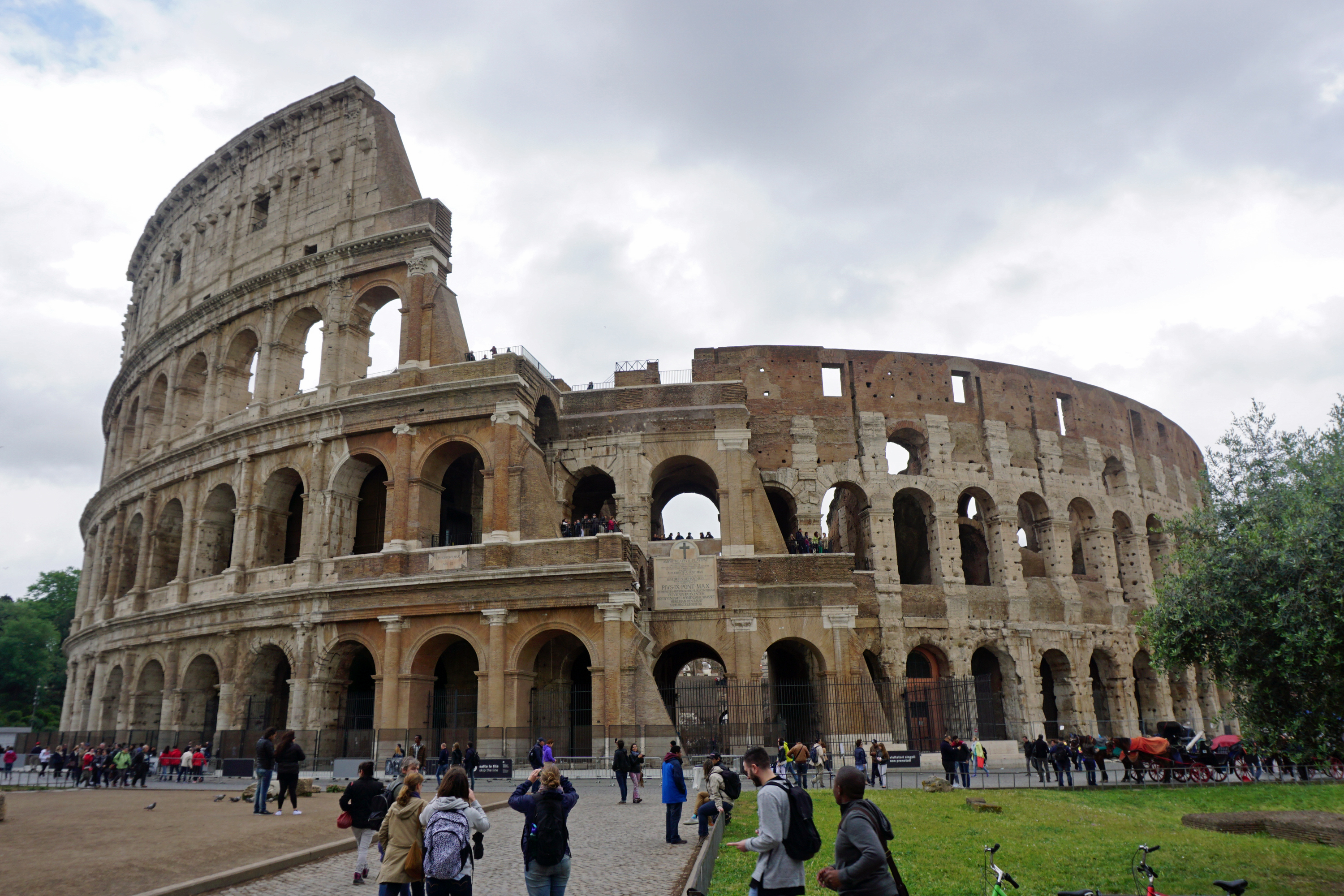 Roman Coliseum, Rome, Italy.